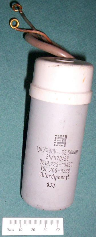 An old capacitor containing toxic chemicals called PCBs. This capacitor was manufactured in Germany in March 1979 according to the German Federal technical standard TGL 200-8268 (Technische Güte- und Lieferbedingungen) for motor capacitors. List of TGL 200 series standards, University of Bauhaus, Weimar, Germany.